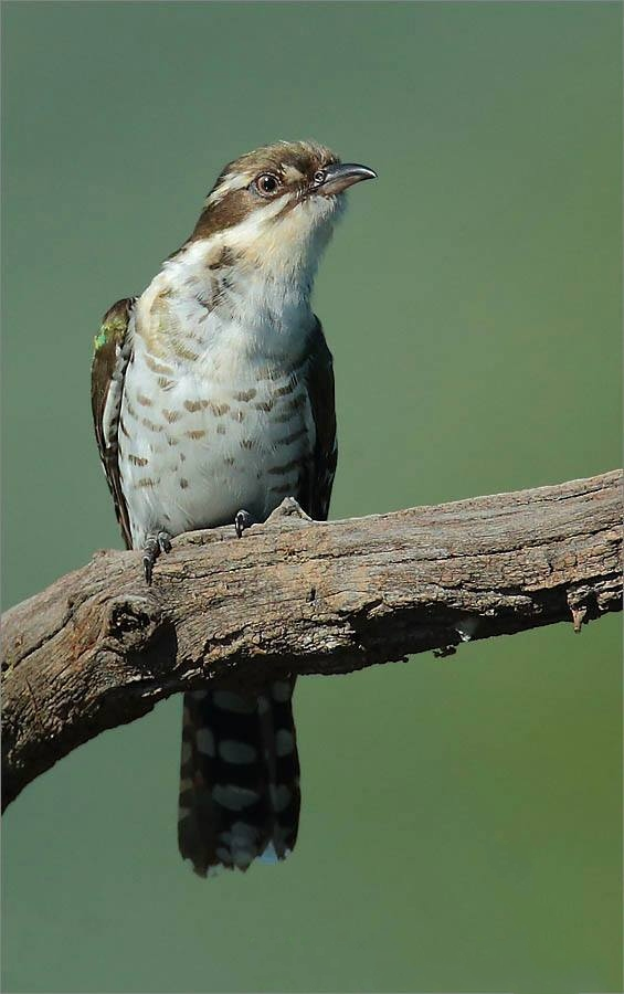 Chrysococcyx caprius (female) - Pilanesberg Reserve, South Africa